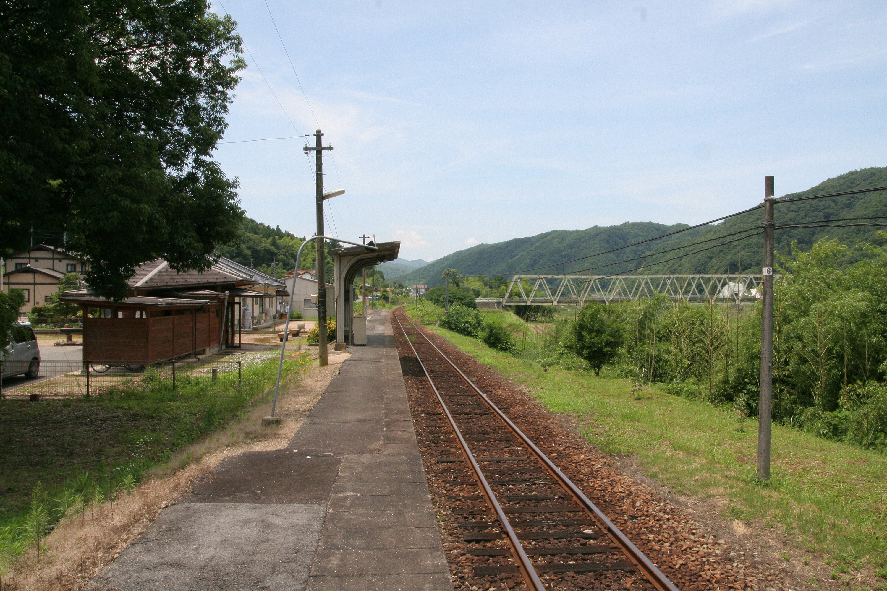 West Japan Railway Sanko Line Kouyodo Station enclosure